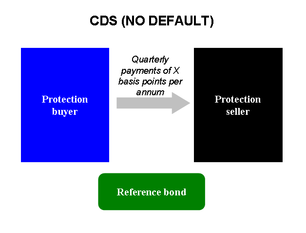 Credit Default Swap scheme (no default)